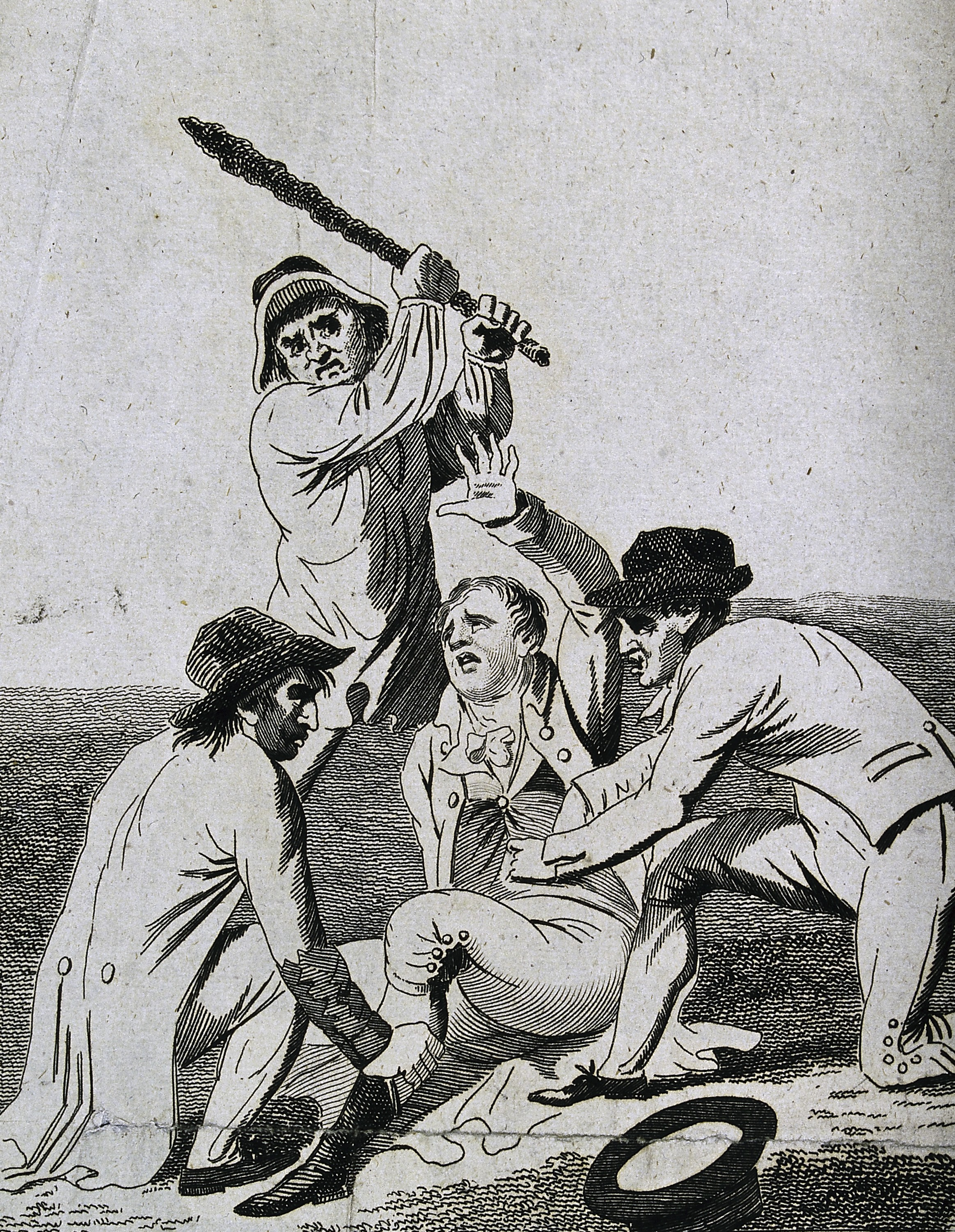 A man pleads for mercy with his left arm as he is robbed and beaten by three men. Etching. Iconographic Collections